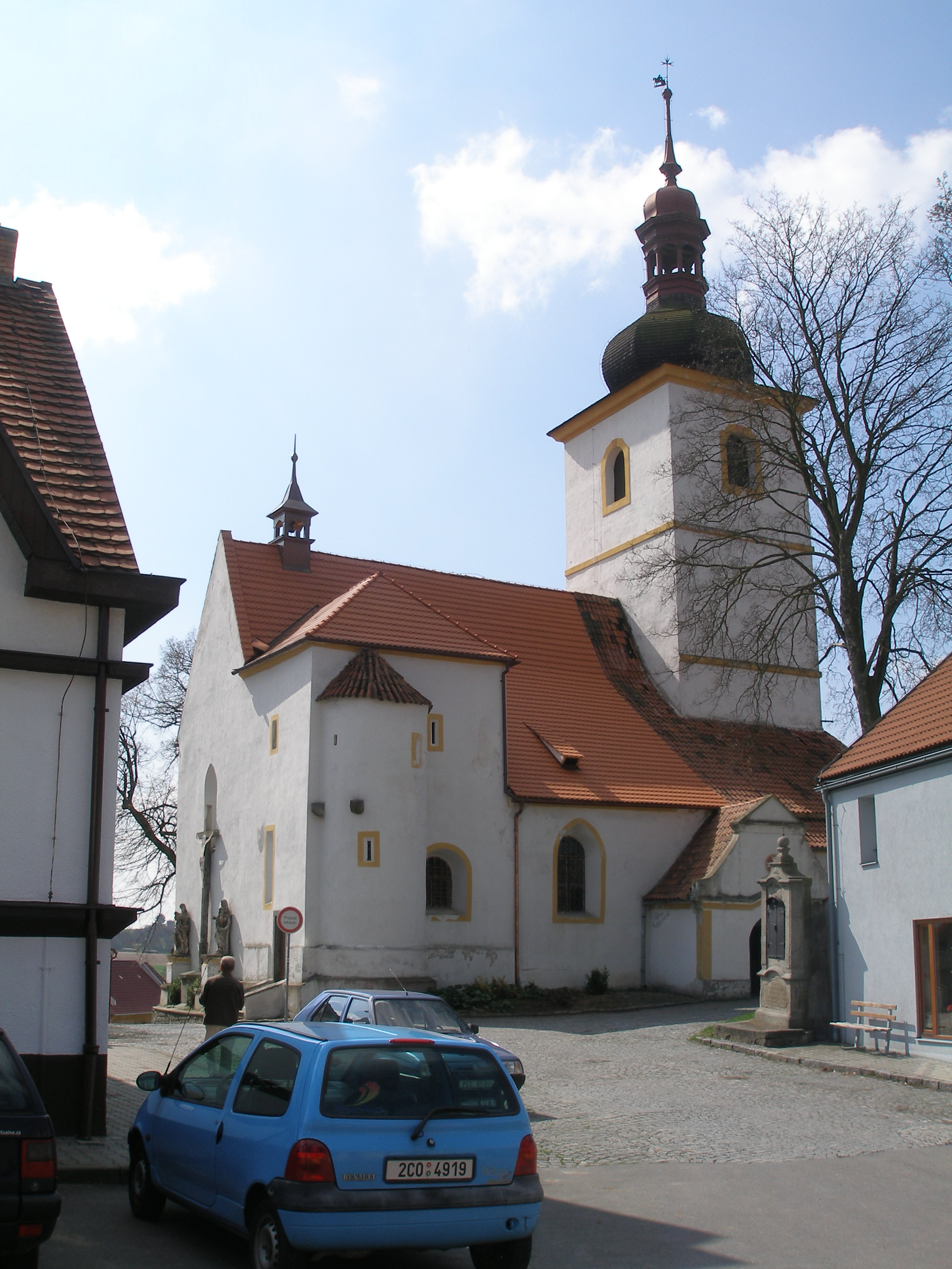 St. Martin's church, Northern view, Radomyšl